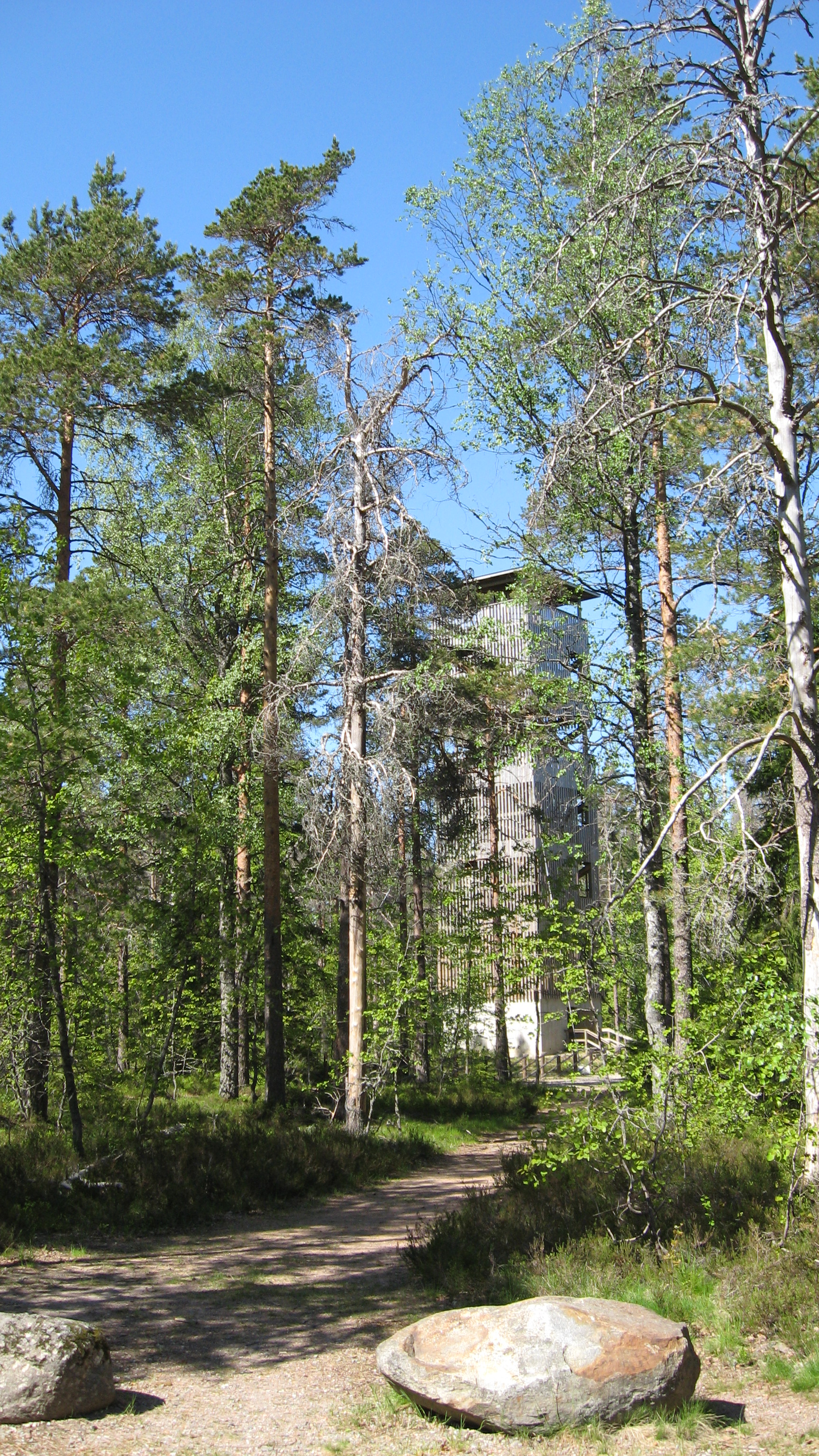 An observation tower on the top of Lauhanvuori hill. Lauhanvuori locate in Lauhanvuori National Park, Finland.